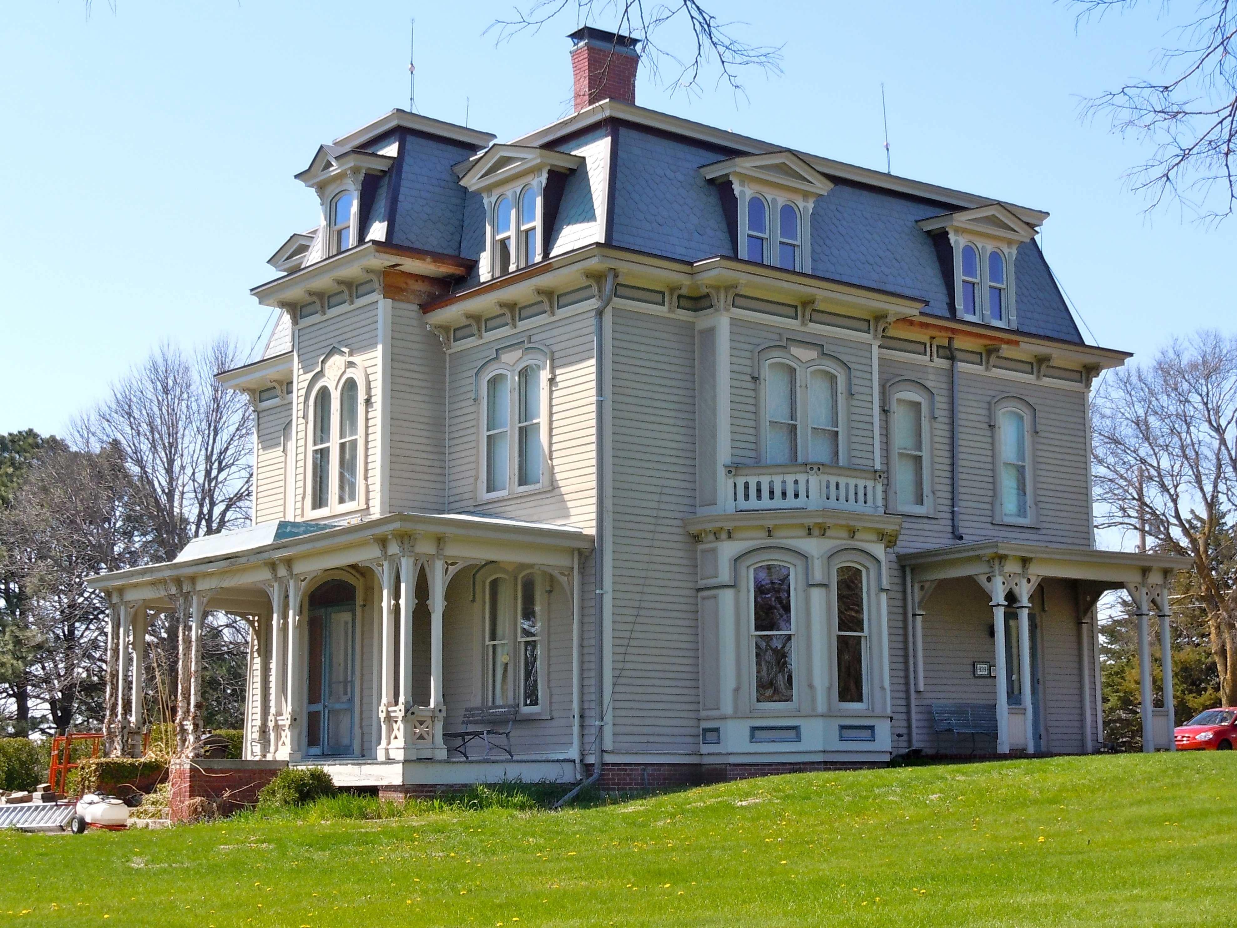 John Cattle, Jr. House on the NRHP since September 13, 1978. 939 W. Hillcrest St., Seward, Seward County, Nebraska.